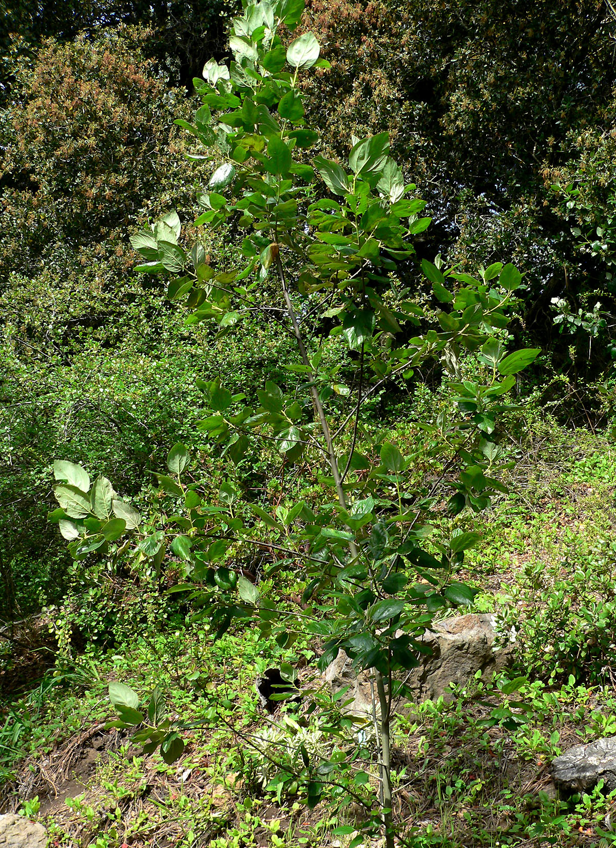 Photo of Ceanothus arboreus at the Regional Parks Botanic Garden, Berkeley, California